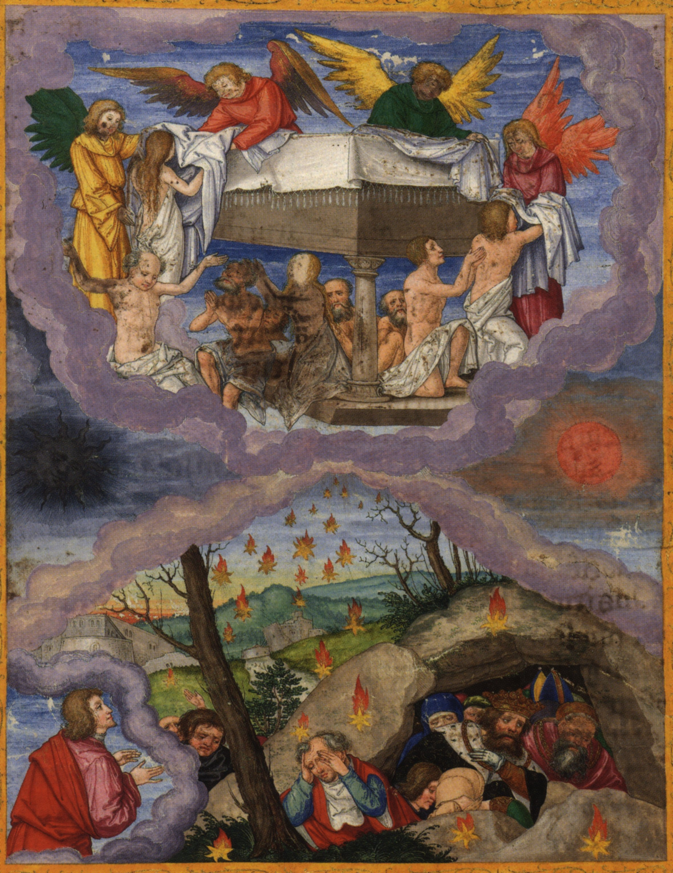 Page 289r: The Opening of the Fifth and Sixth Seals, Revelation 6:9-16